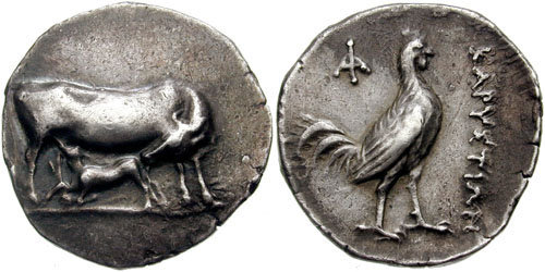 Karystos, 313-265 BC. Silver stater (25mm, 7.46 gm). Cow standing right, suckling calf / KAΡΥΣΤΙΩΝ, rooster standing right; monogram to left.